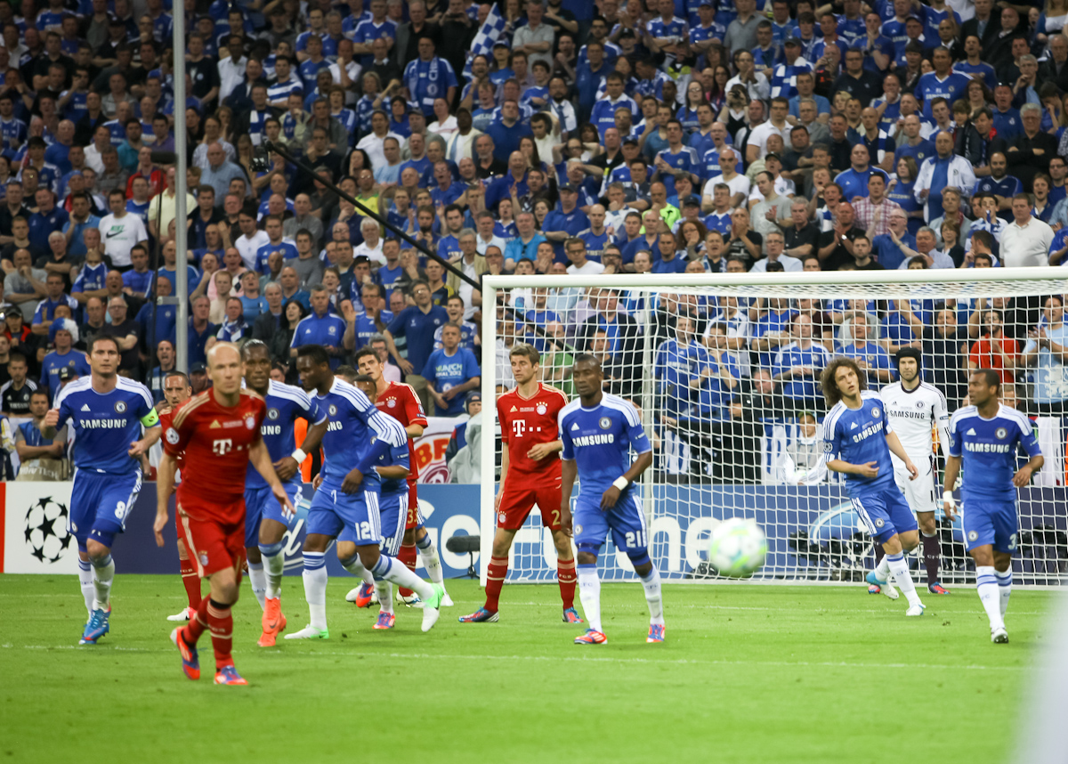 UEFA Champions League Final. FC Bayern München 1-1 Chelsea FC (aet, Chelsea win 4-3 on penalties)